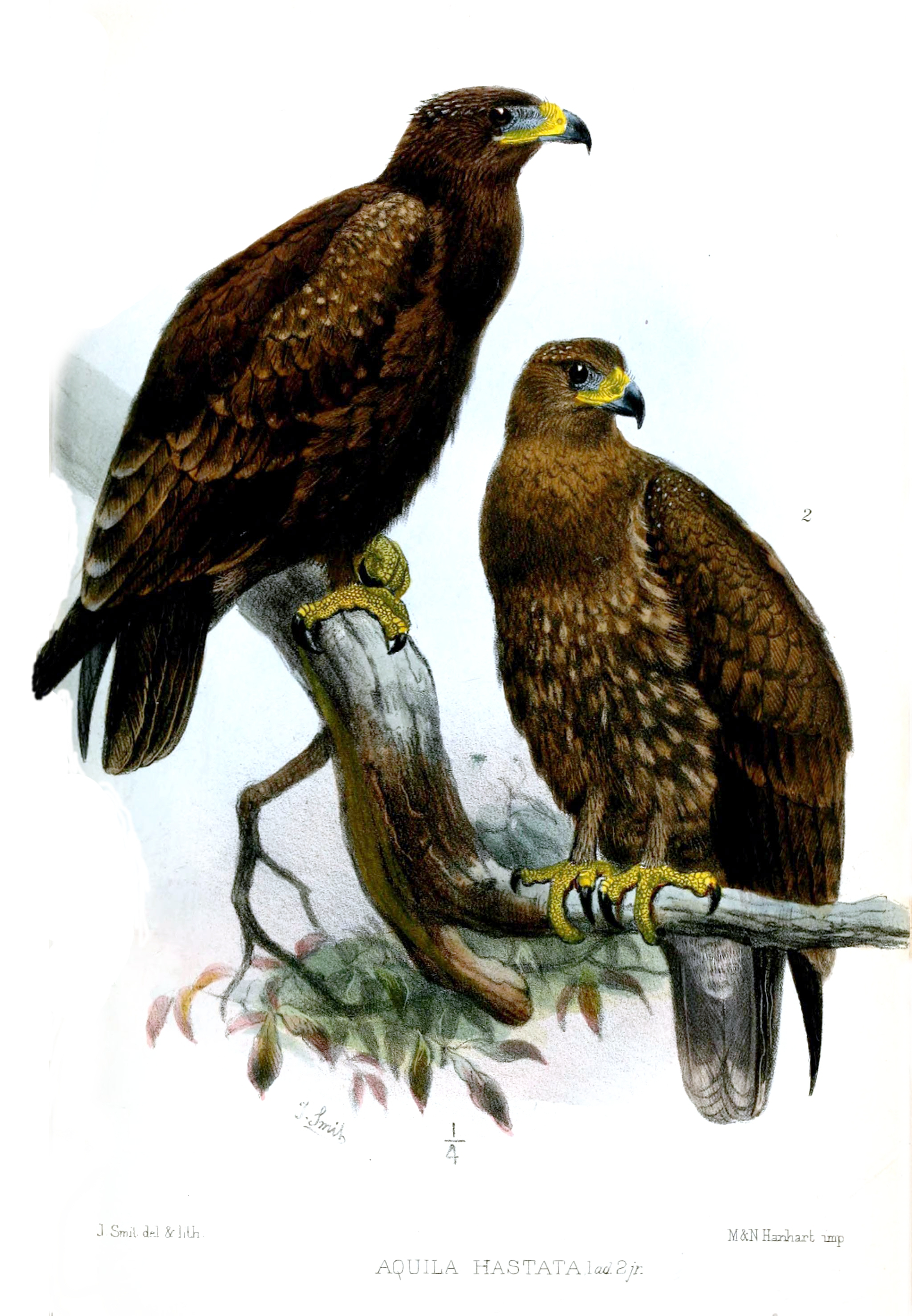 Aquila hastata (adult and juvenile) web